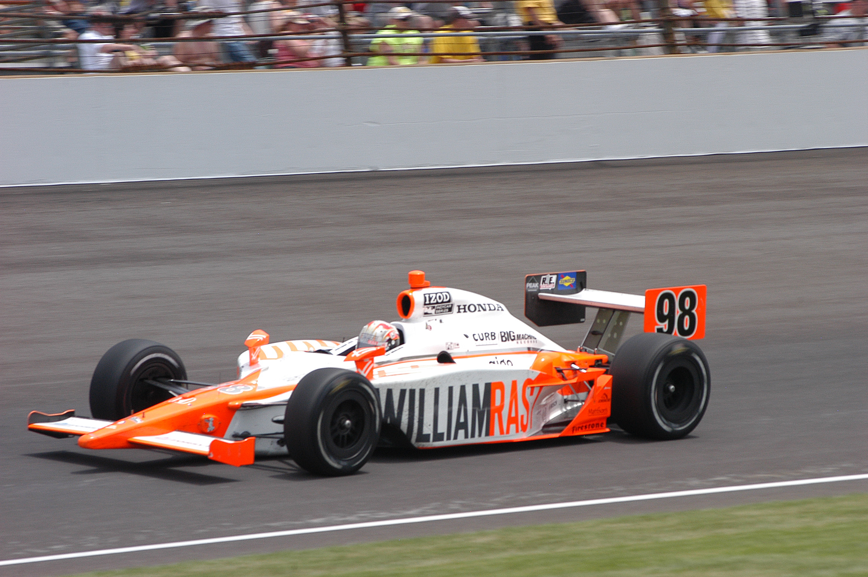 Dan Wheldon drove the William Rast sponsored Bryan Herta Autosport entry.